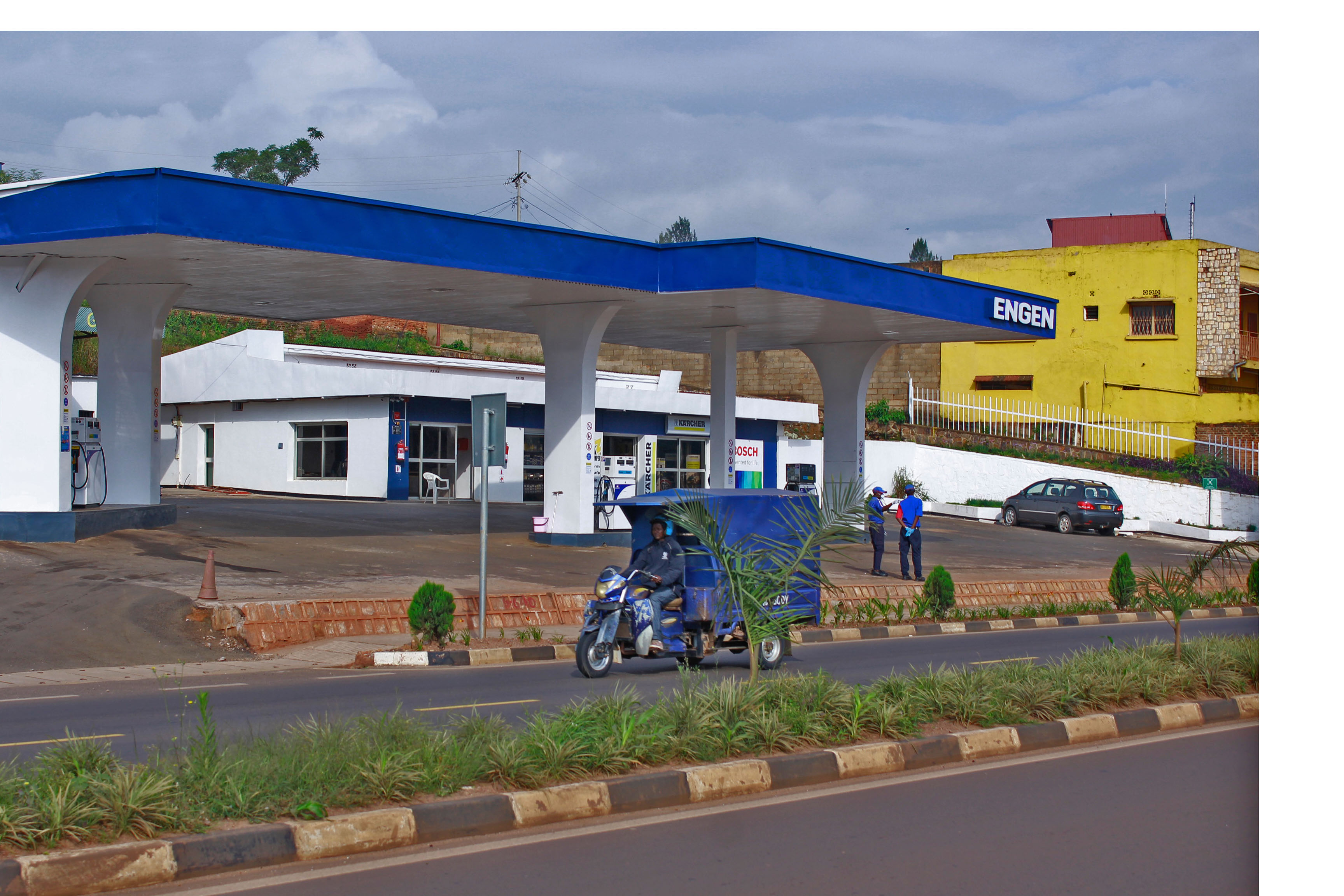 A riffan This is an image with the theme "Africa on the Move or Transport" from: Rwanda